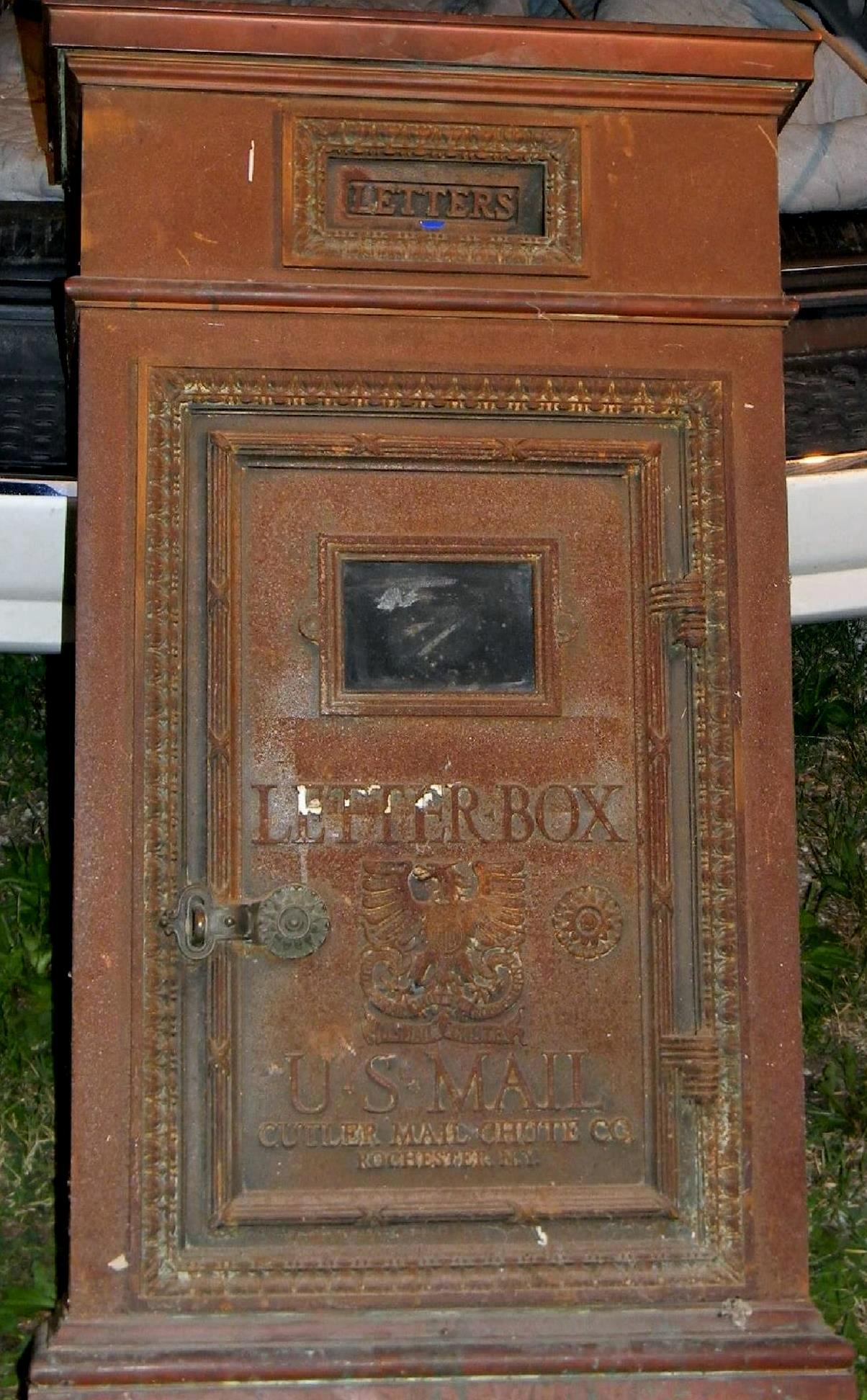 The chute box as found was engulfed in rust and slated for scrapping. Richard Van Allen gave this to Max Whitaker some years prior to the demolition of the Terre Haute House. Mr. Whitaker eventually gave this to a local businessman and it now resides in a private home in Terre Haute. See related image Terre Haute House Cutler Mail Chute Box as removed